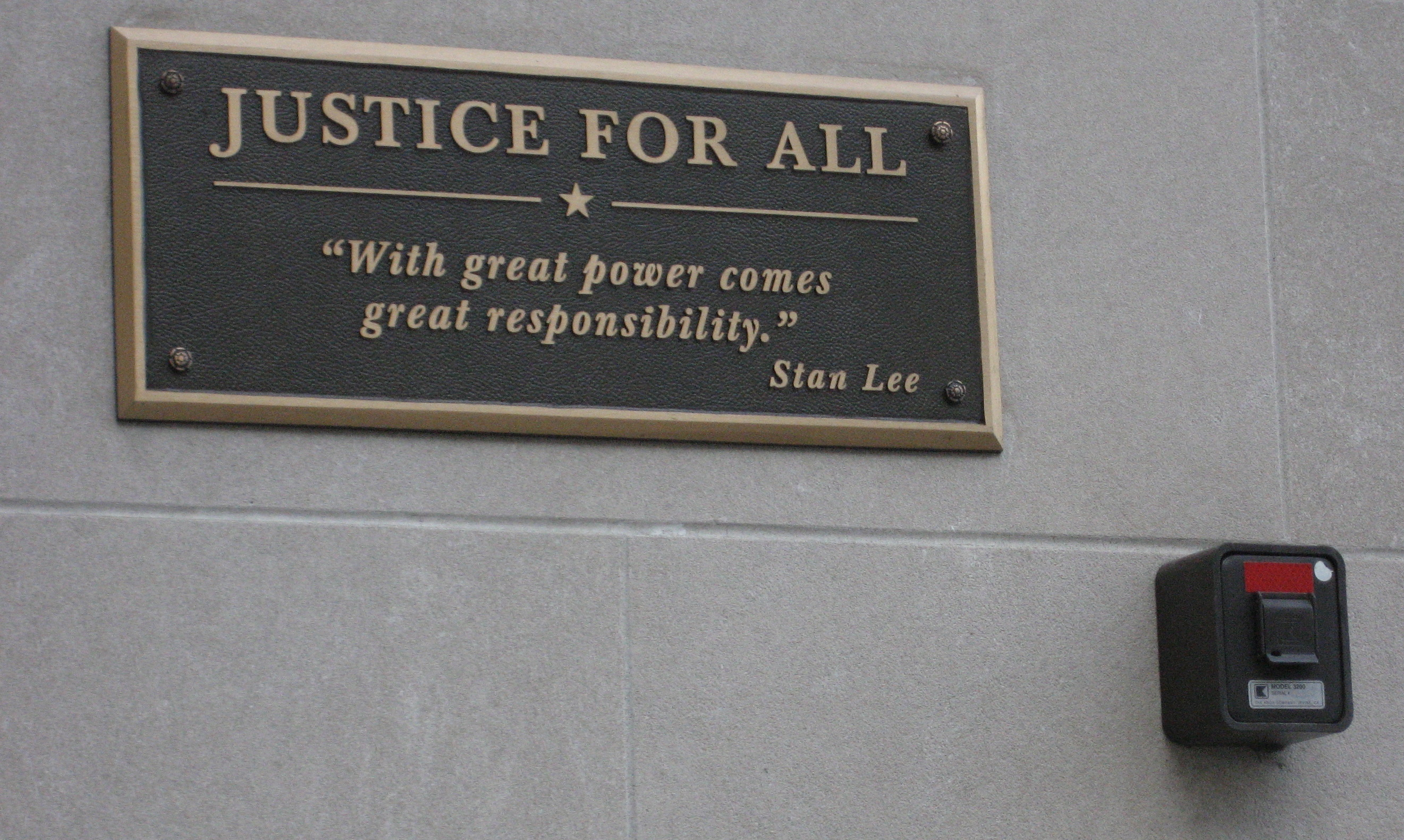 Providence, Rhode Island. State Attorney General Building. Details by front door: curious quote on plaque; entrance security box.